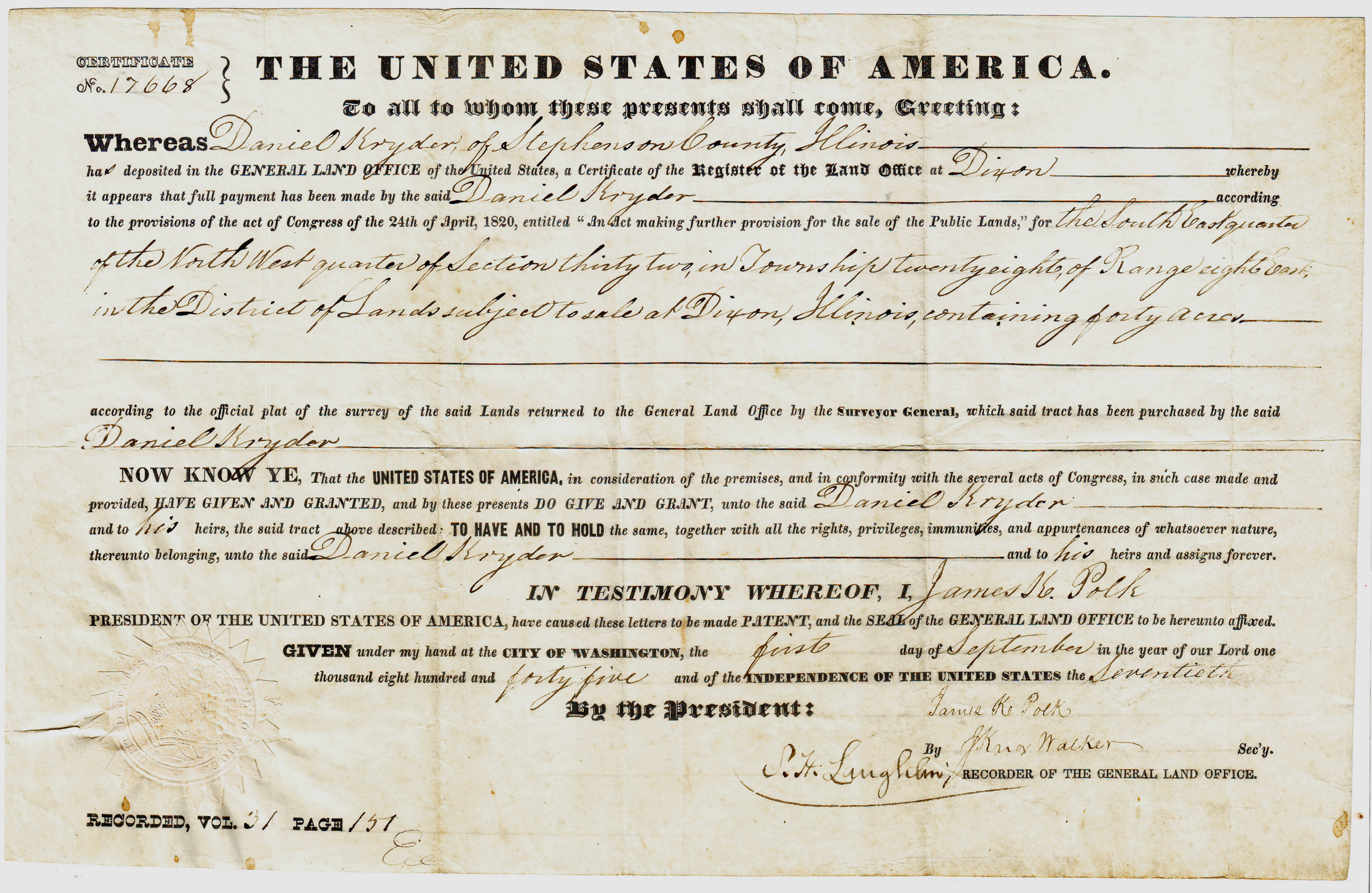 A U.S. General Land Office land patent for 40 acres of land in Dixon, Illinois, dated September 1, 1845. It is signed on behalf of President James K. Polk by Col. J. Knox Walker, the President's private secretary and nephew.